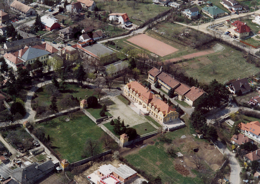 Palace - Pomáz - Hungary - Europe